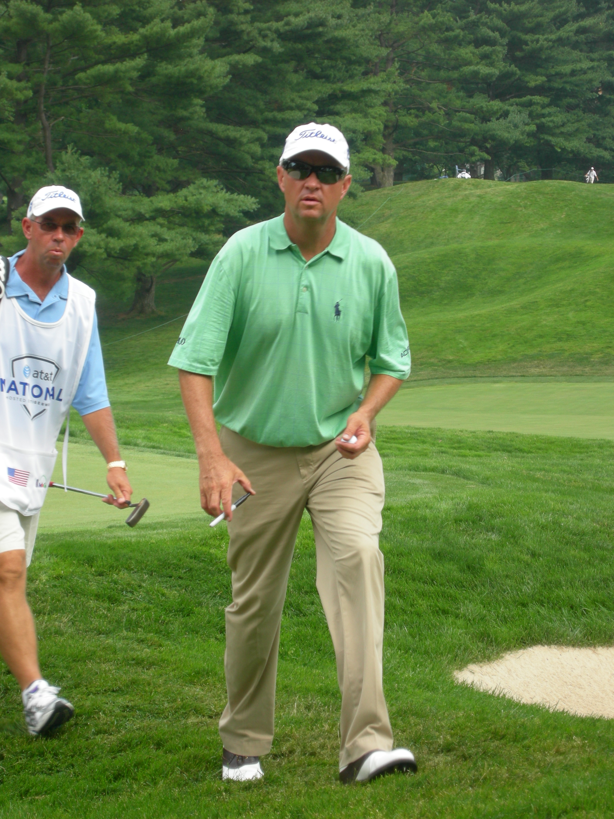 Davis Love III, preparing to sign autographs as he walks off the 17th green of the Congressional Country Club's Blue Course during the Earl Woods Memorial Pro-Am prior to the 2007 AT&T National tournament.